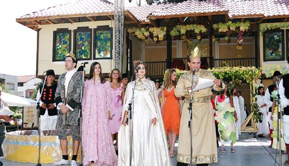 Дел од свеченостите на Тиквешкиот гроздобер